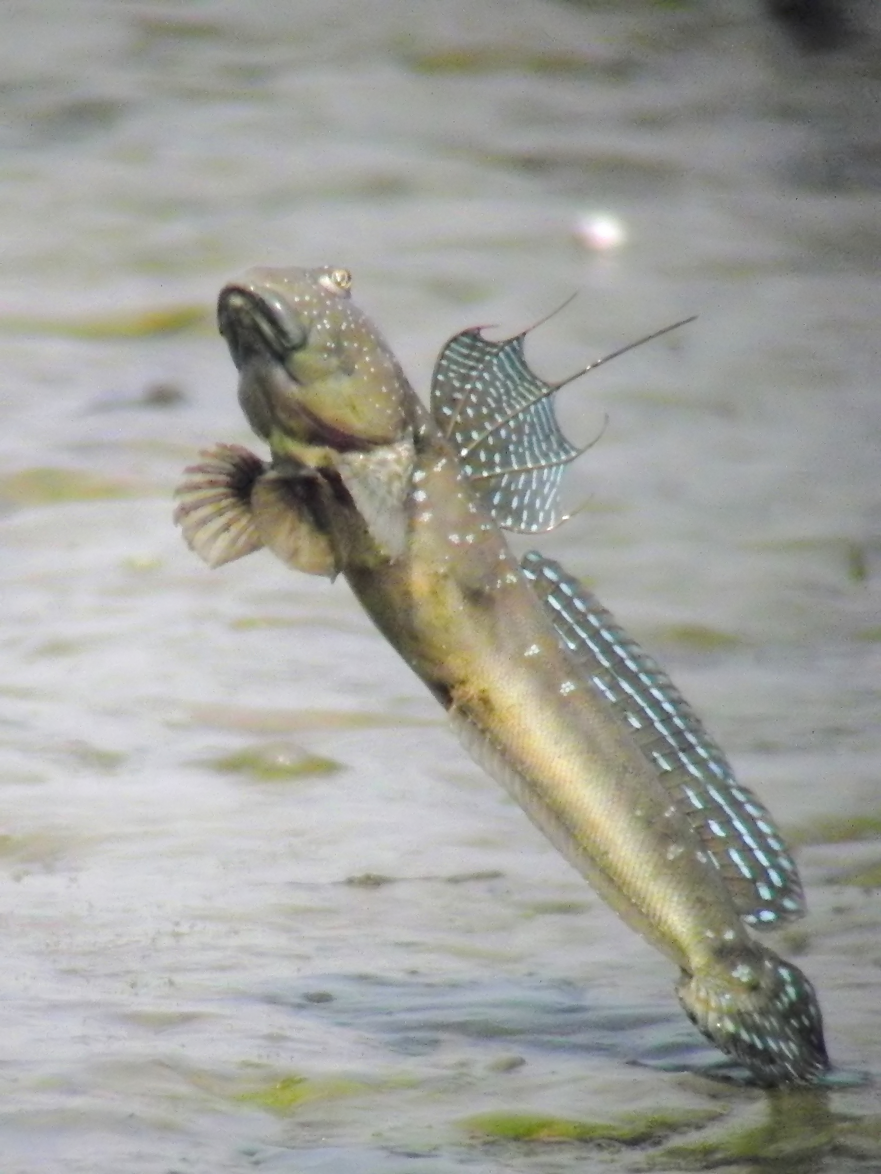 Saw at the wet lands.